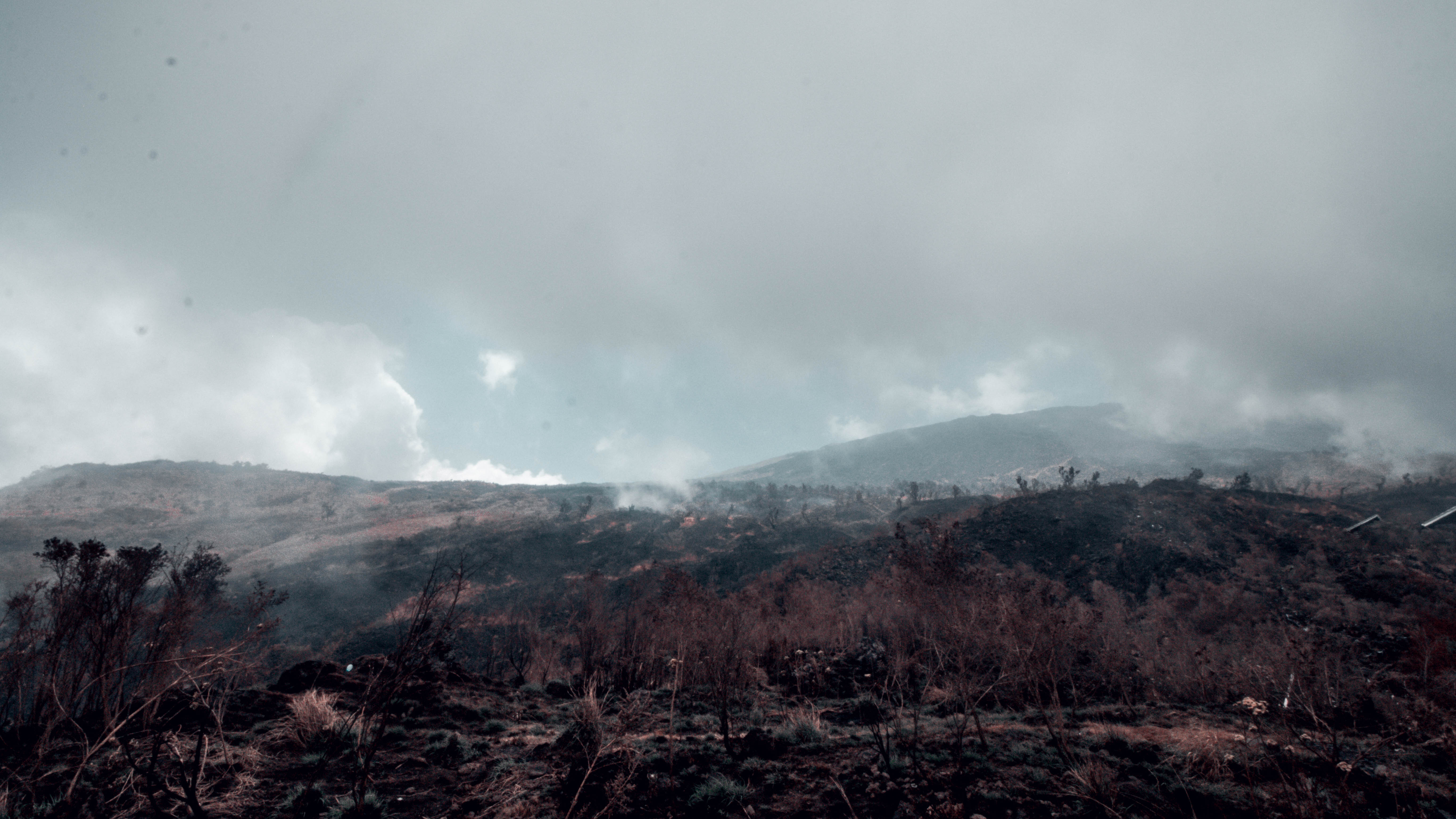 This is an image with the theme "Africa on the Move or Transport" from: Cameroon